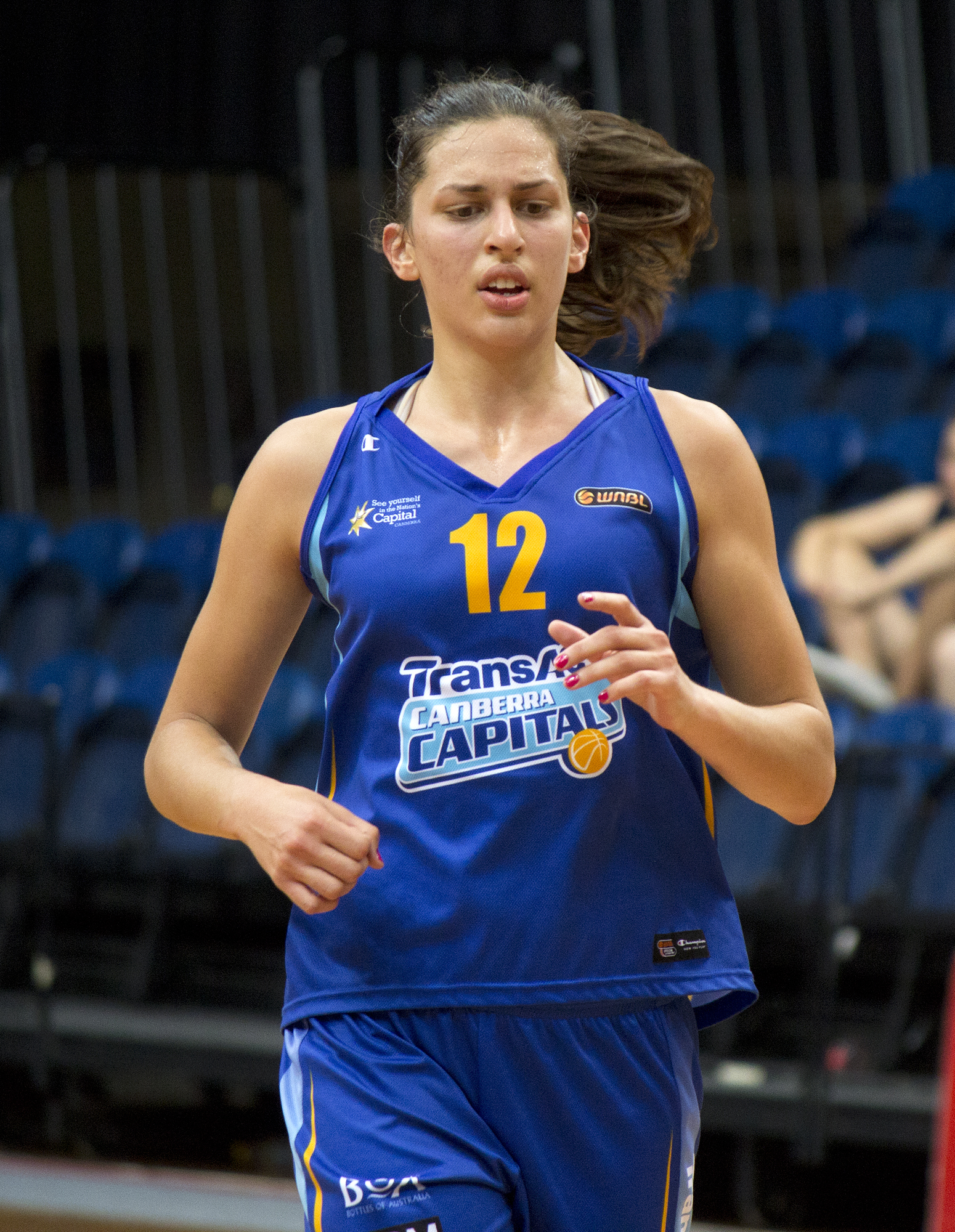 Marianna Tolo at the Canberra Capitals vs Logan Thunder held at AIS Arena at the Australian Institute of Sport